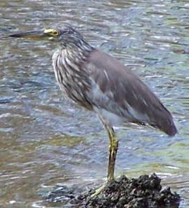 My own photo